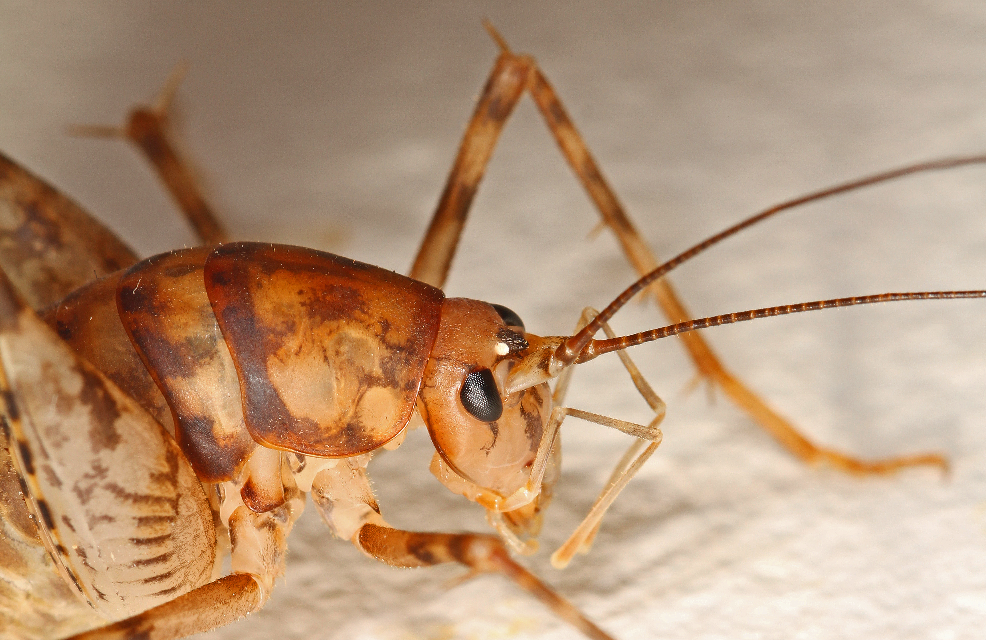 Greenhouse Camel Cricket - Diestrammena asynamora, Woodbridge, Virginia